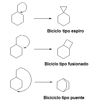 Bridged compounds